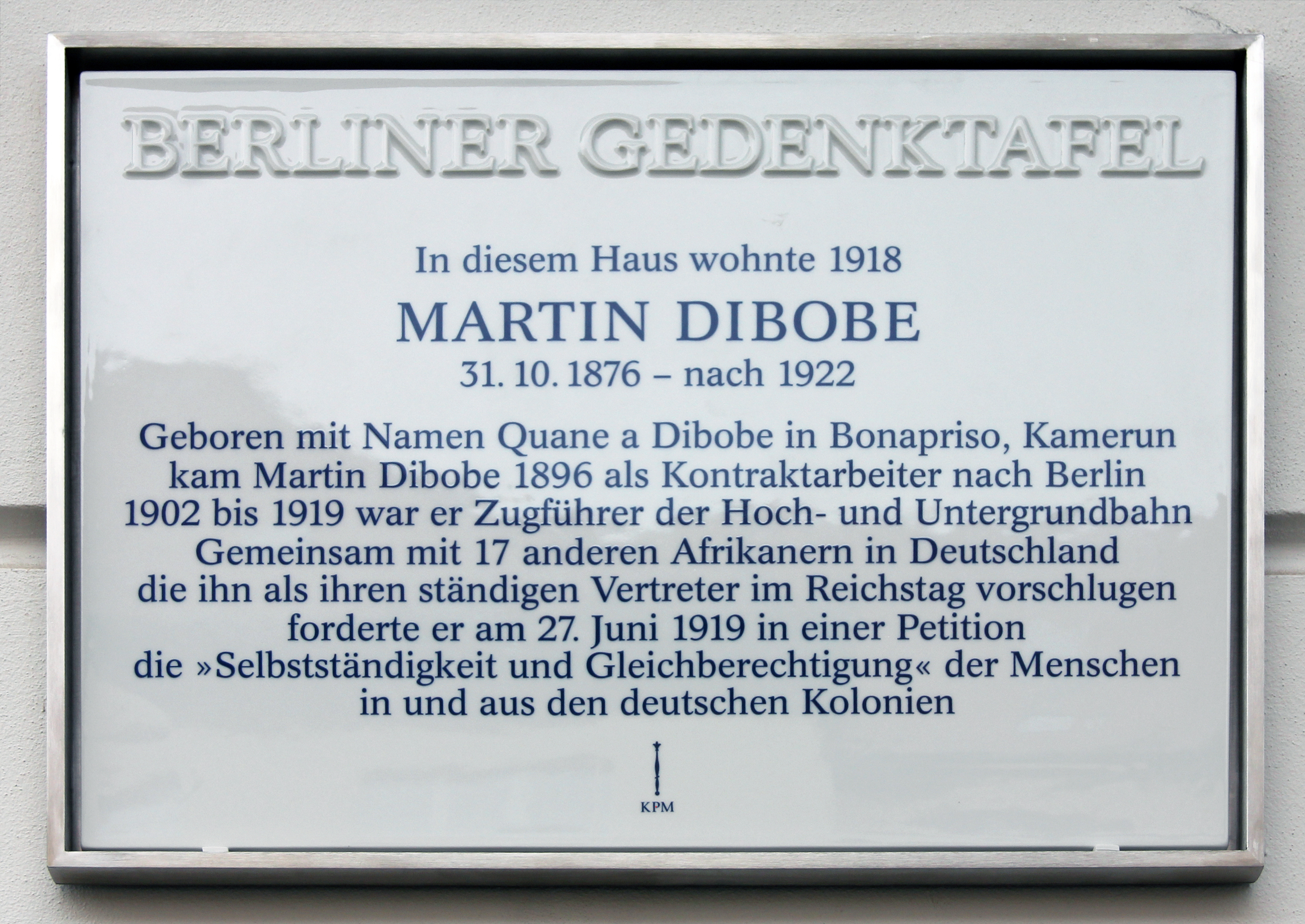 Berlin memorial plaque, Martin Dibobe, Kuglerstraße 44, Berlin-Prenzlauer Berg, Germany